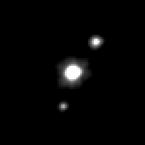 Haumea and its satellites, imaged on June 30, 2015 by the Hubble Space Telescope